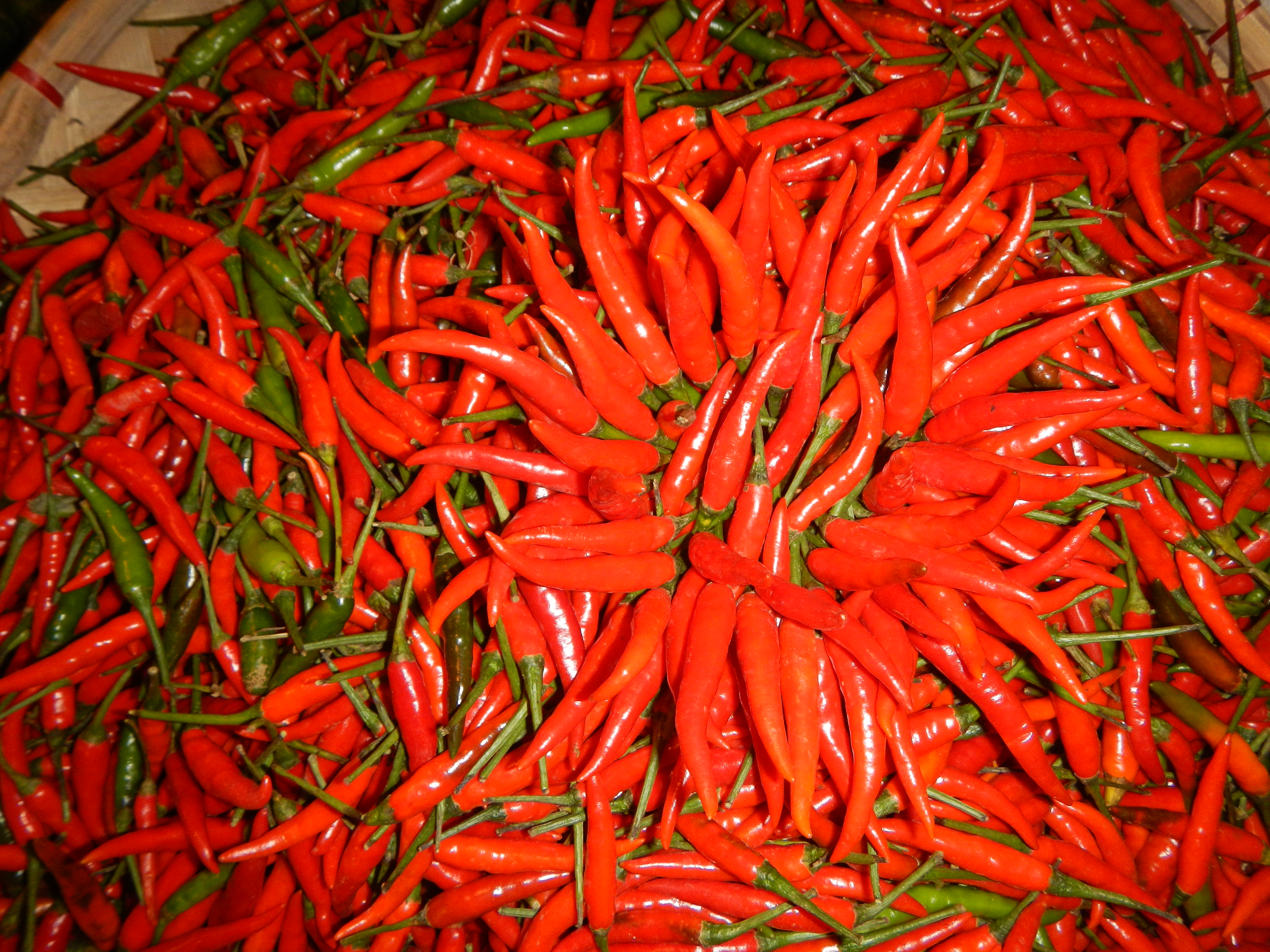 Pepper in the Philippines, Siling labuyo